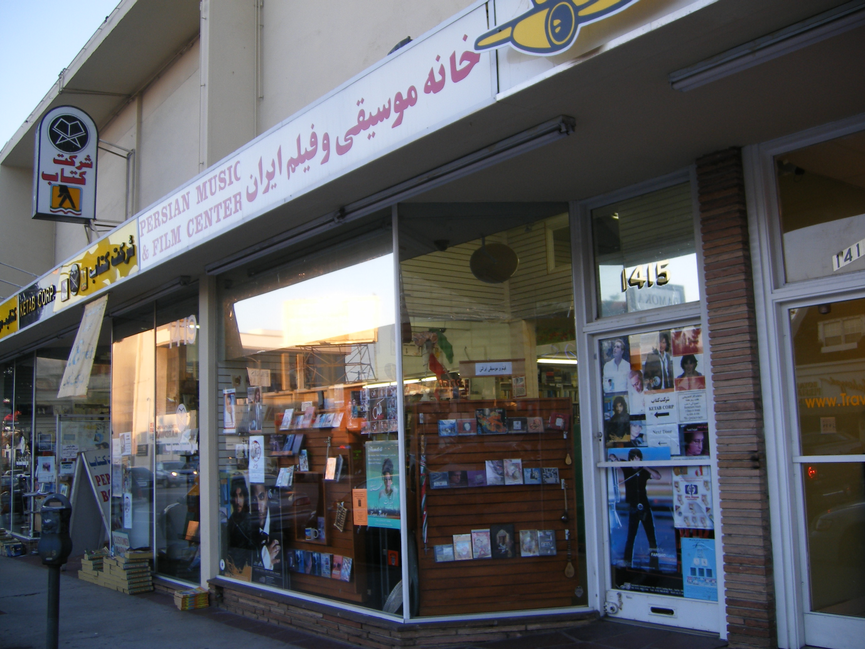 Persian stores along westwood blvd. An Iranian bookstore is shown here.